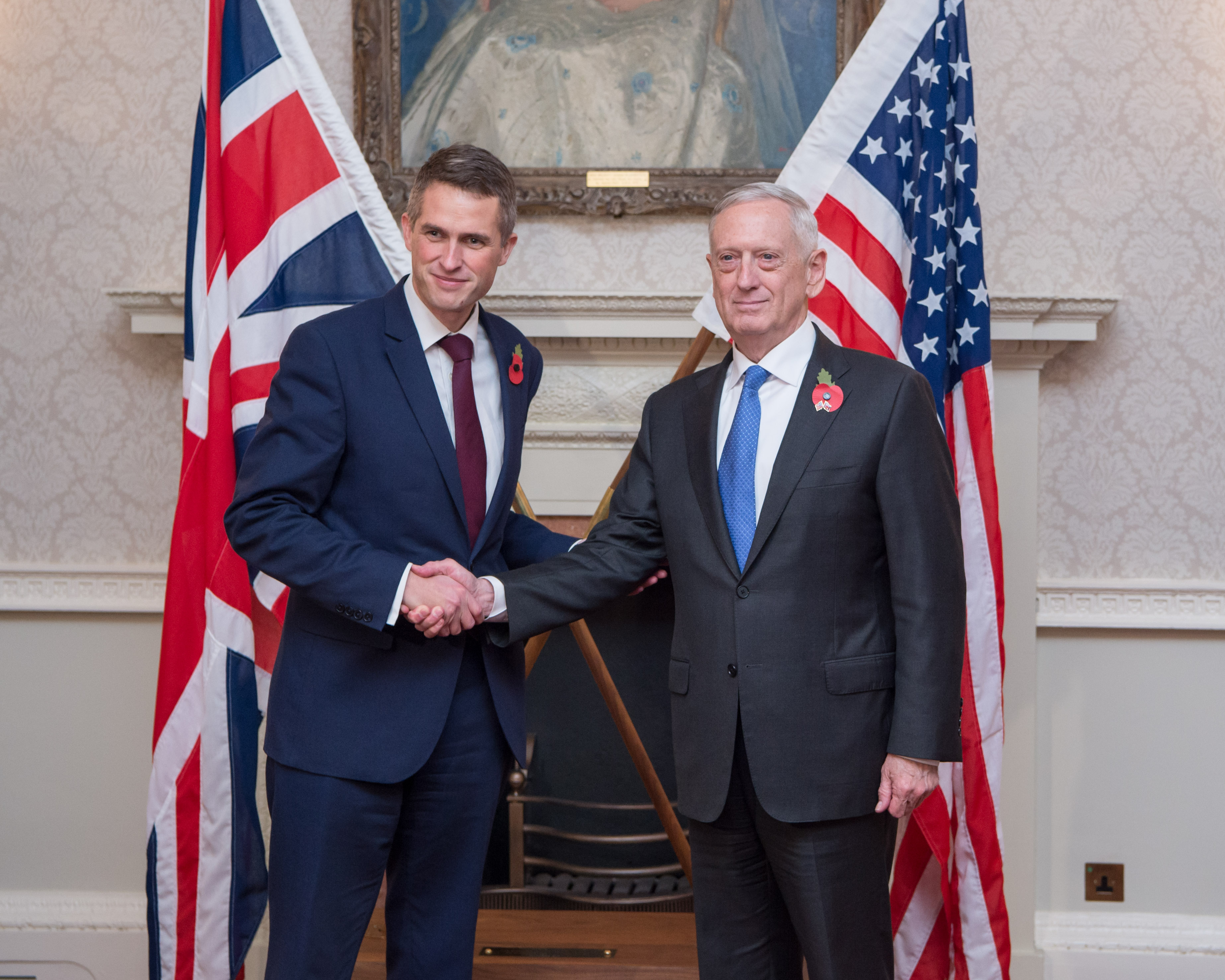 Secretary of Defense Jim Mattis meets with the United Kingdom’s Secretary of State for Defense Gavin Williamson in London on Nov. 10, 2017. (DoD photo by U.S. Air Force Staff Sgt. Jette Carr)